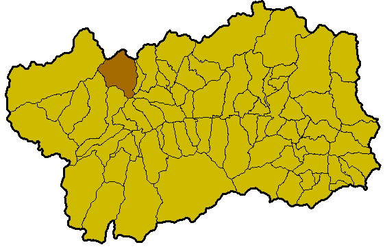 Location map of Saint-Rhemy-en-Bosses in the Aosta Valley.